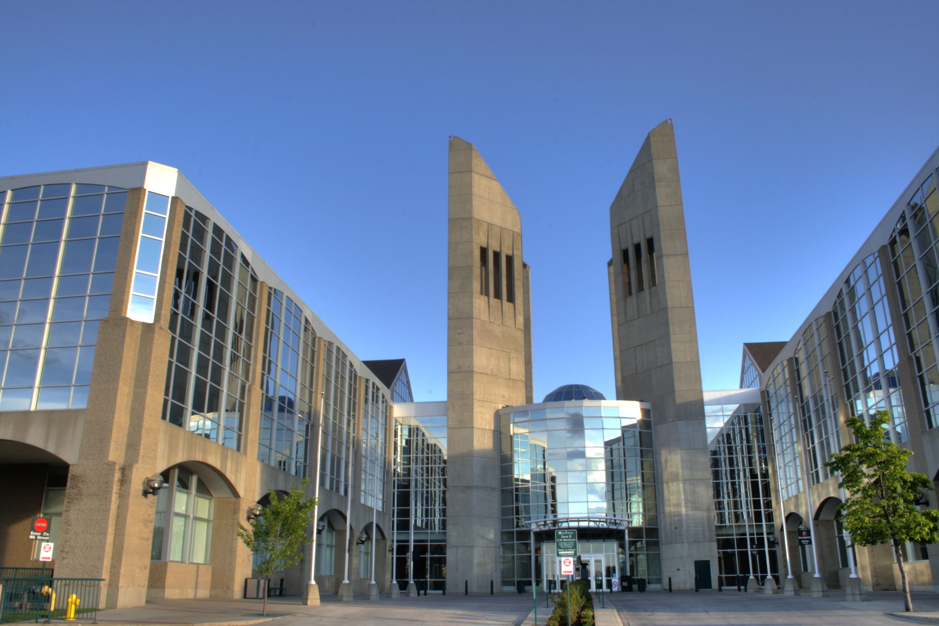 An entrance to Grant MacEwan College from the north, Edmonton, Alberta, Canada.